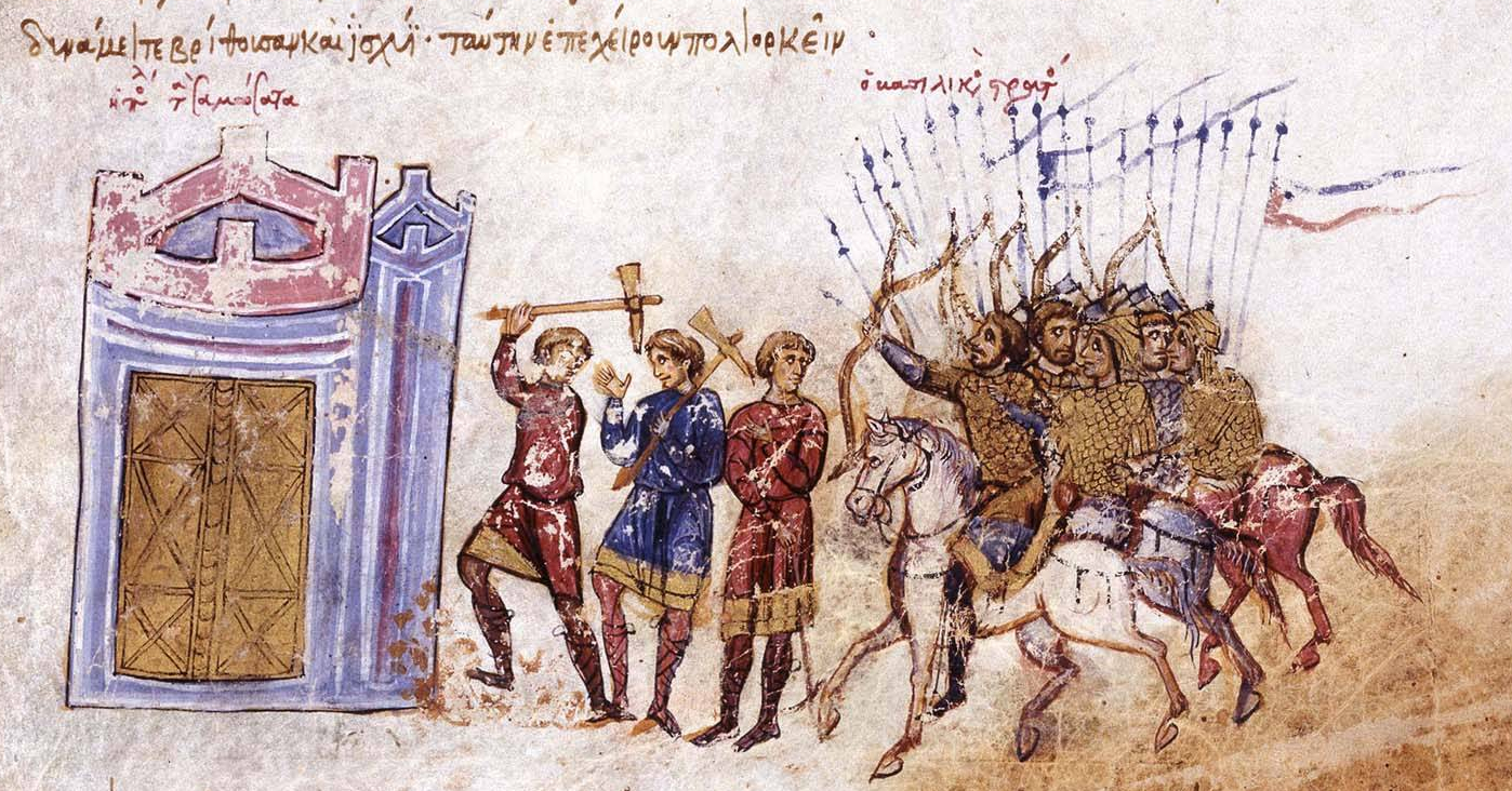 The Byzantine army attacks the Muslim fortress of Samosata in 856. Madrid Skylitzes Fol. 72r